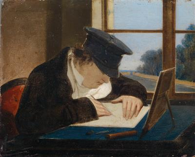 Portrait of the engraver Johann Nepomuk Passini (1798-1874). Oil on panel, 13.5 x 16.3 cm